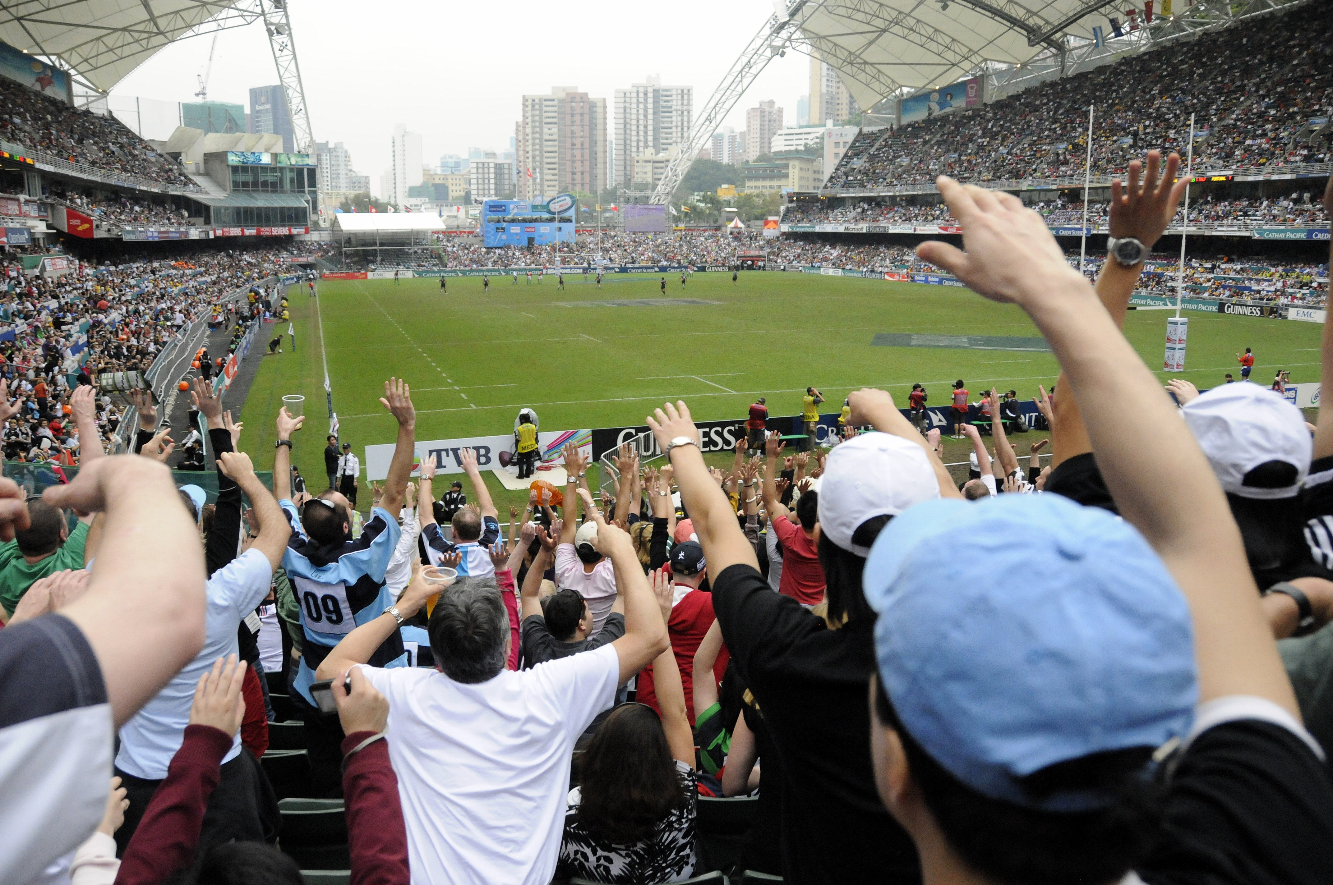 Rugby fans cheering at the Hong Kong Sevens, 2009.